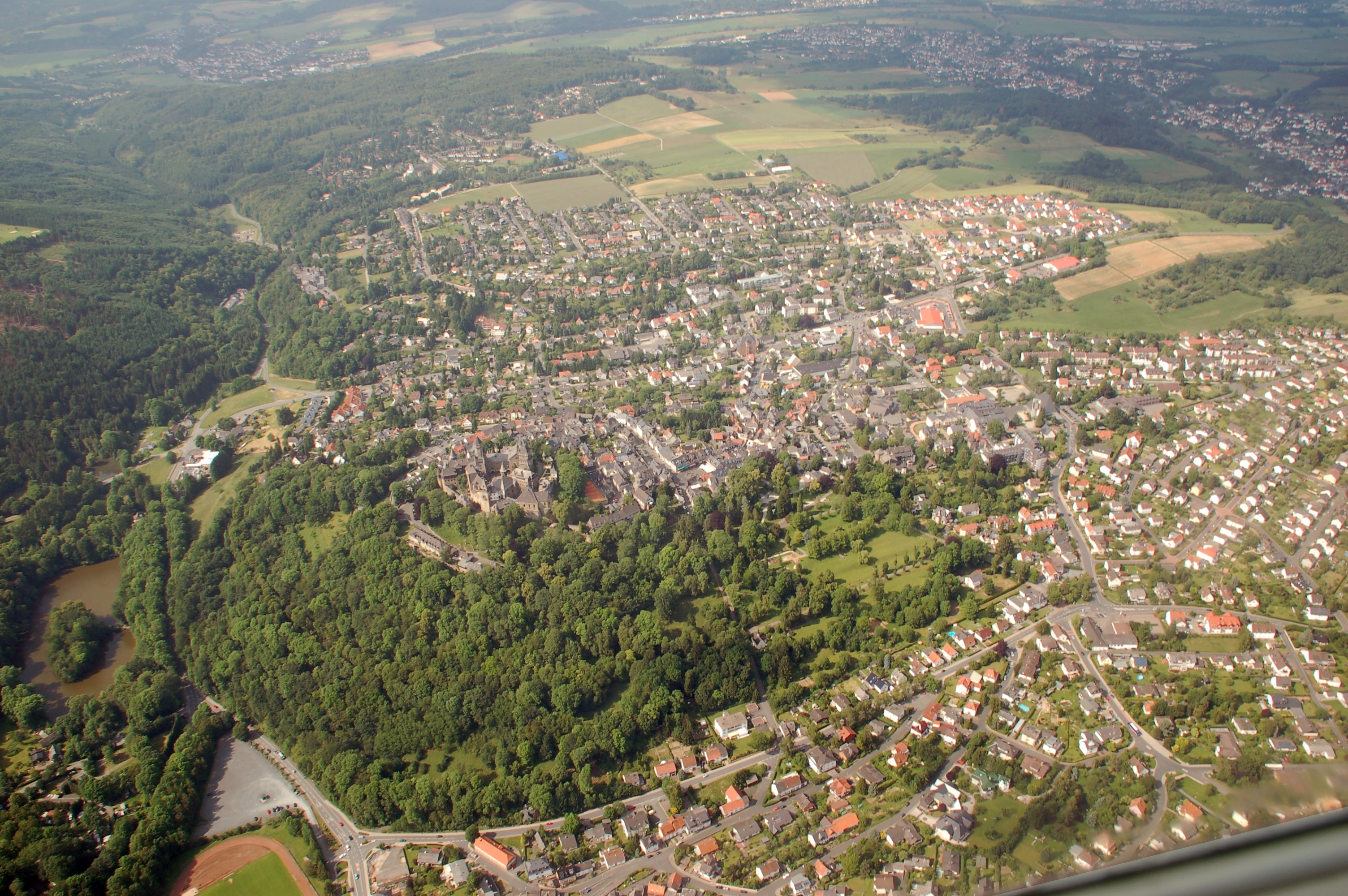 Aerial photograph of the Braunfels castle, Hessen, Germany